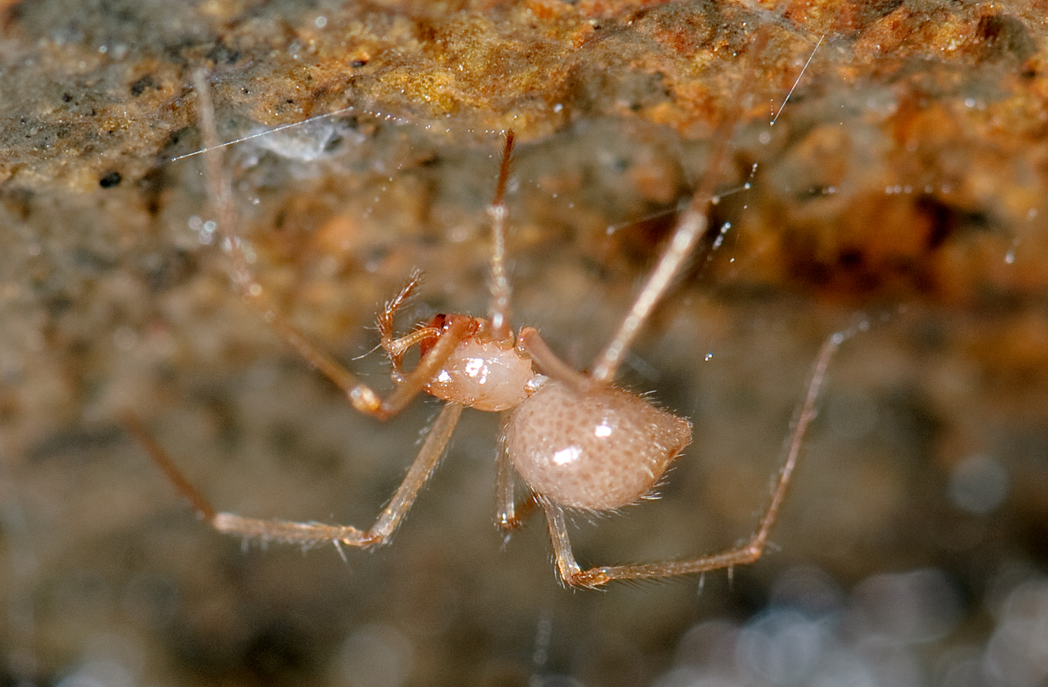 Eidmannella pallida, photographed in Devils Den cave, Arkansas